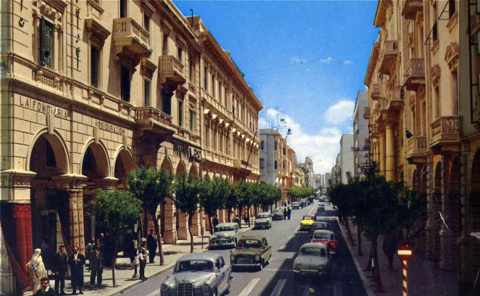 Istiqlal Street (known as Emhemed Elmgeryef Street under Gaddafi's rule) in Tripoli, Libya (1960's)